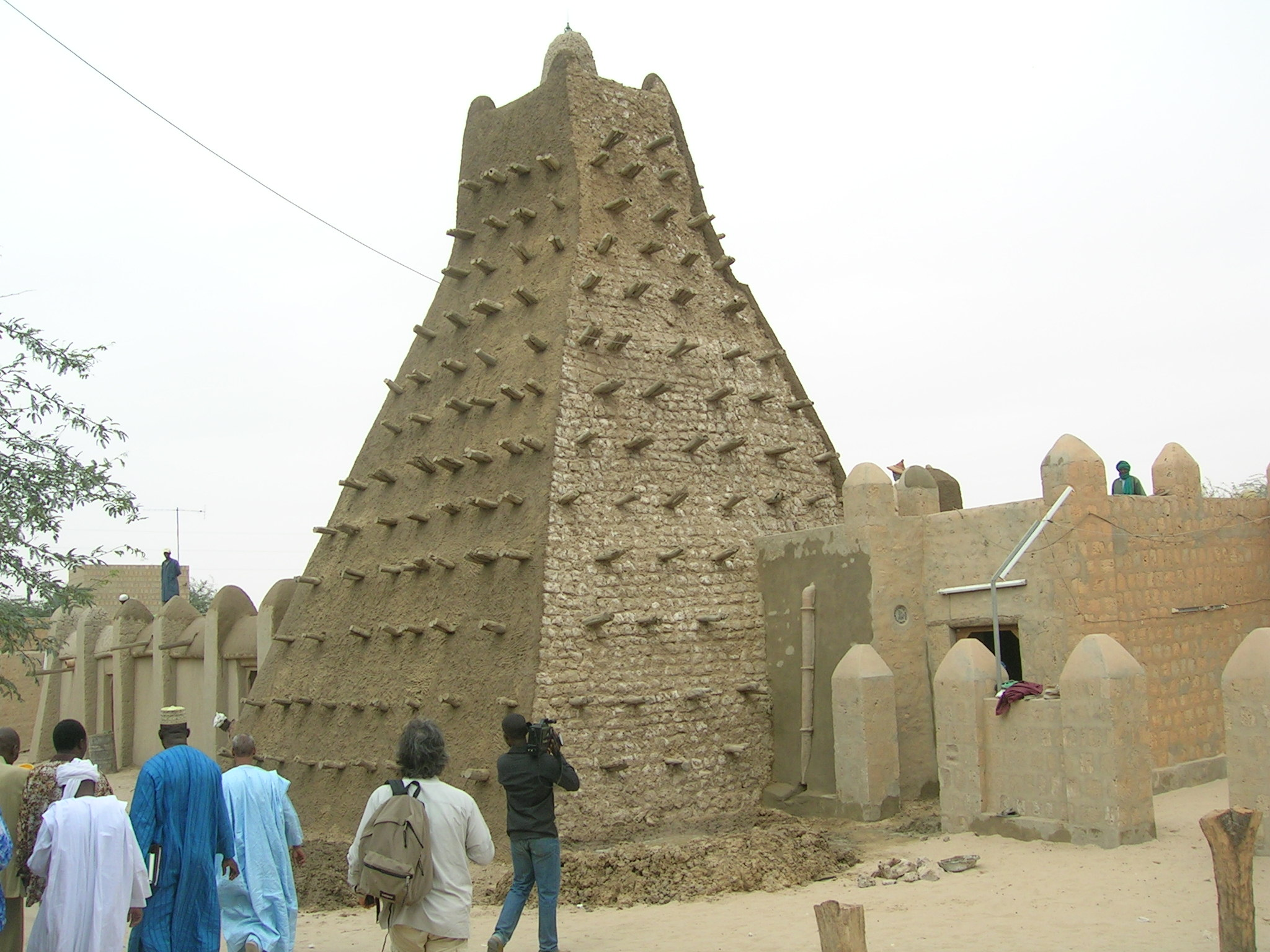 Timbuktu (Mali)